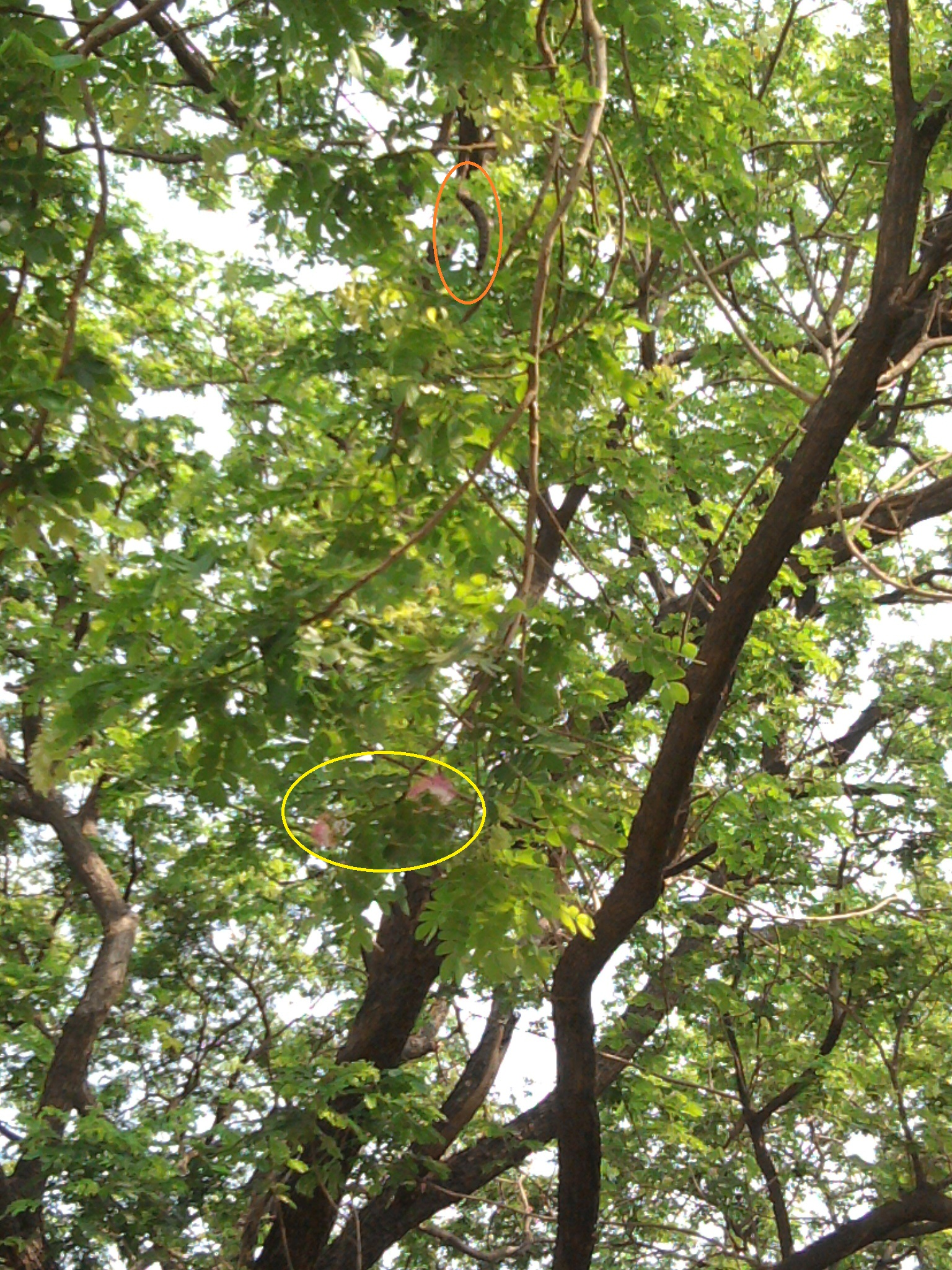 Albizia saman (Raintree)